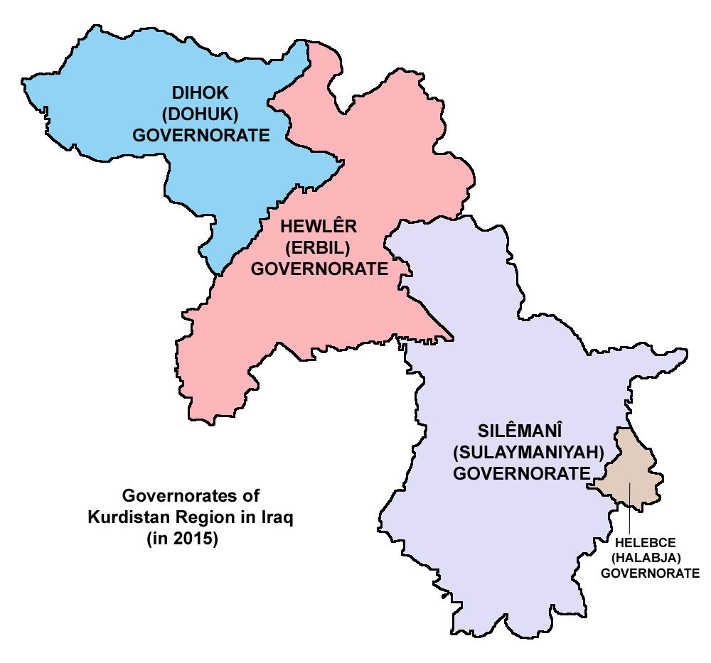 Map showing the governorates of Kurdistan Region in Iraq (in 2015).